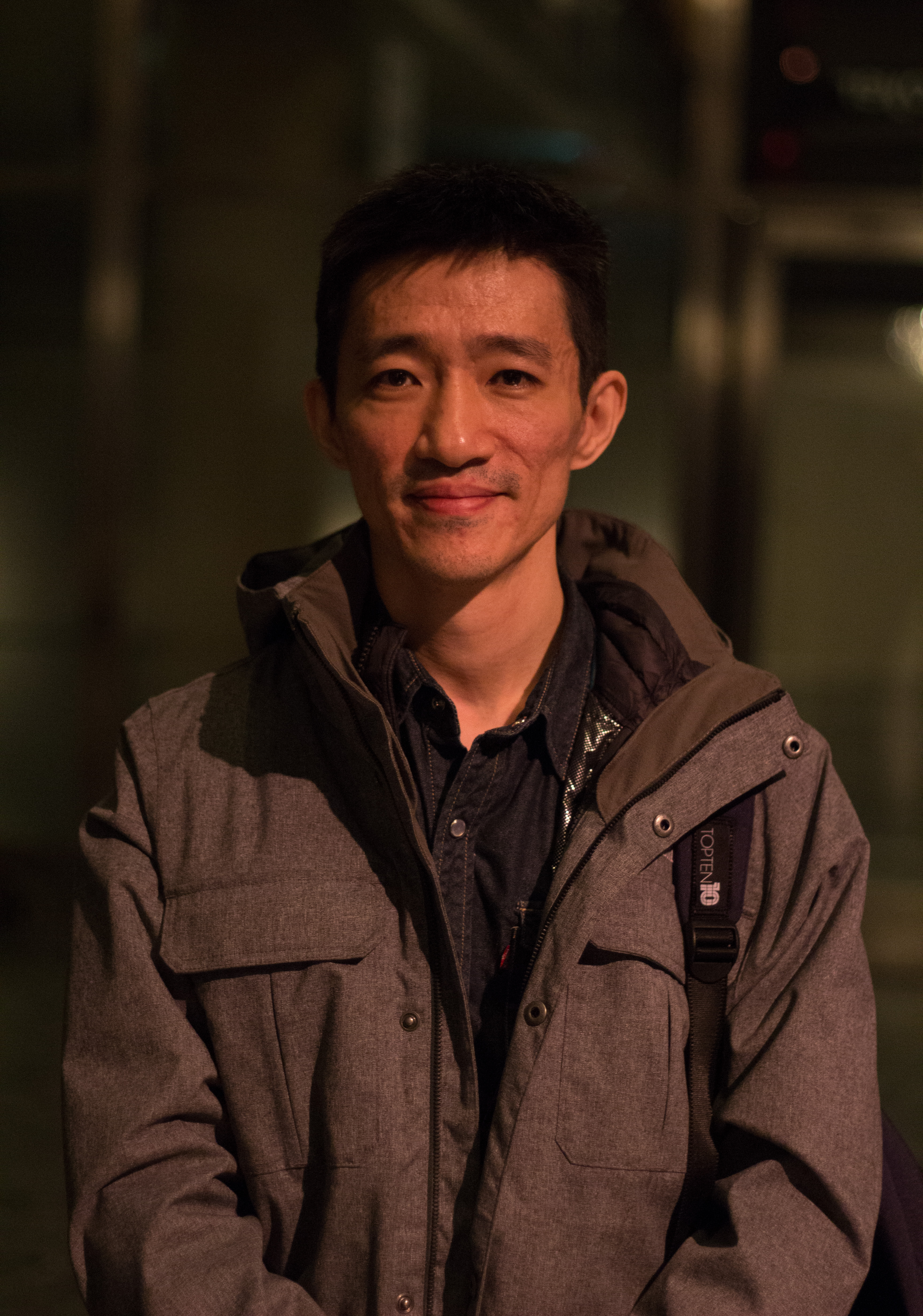 John Hsu at the IFFR 2020